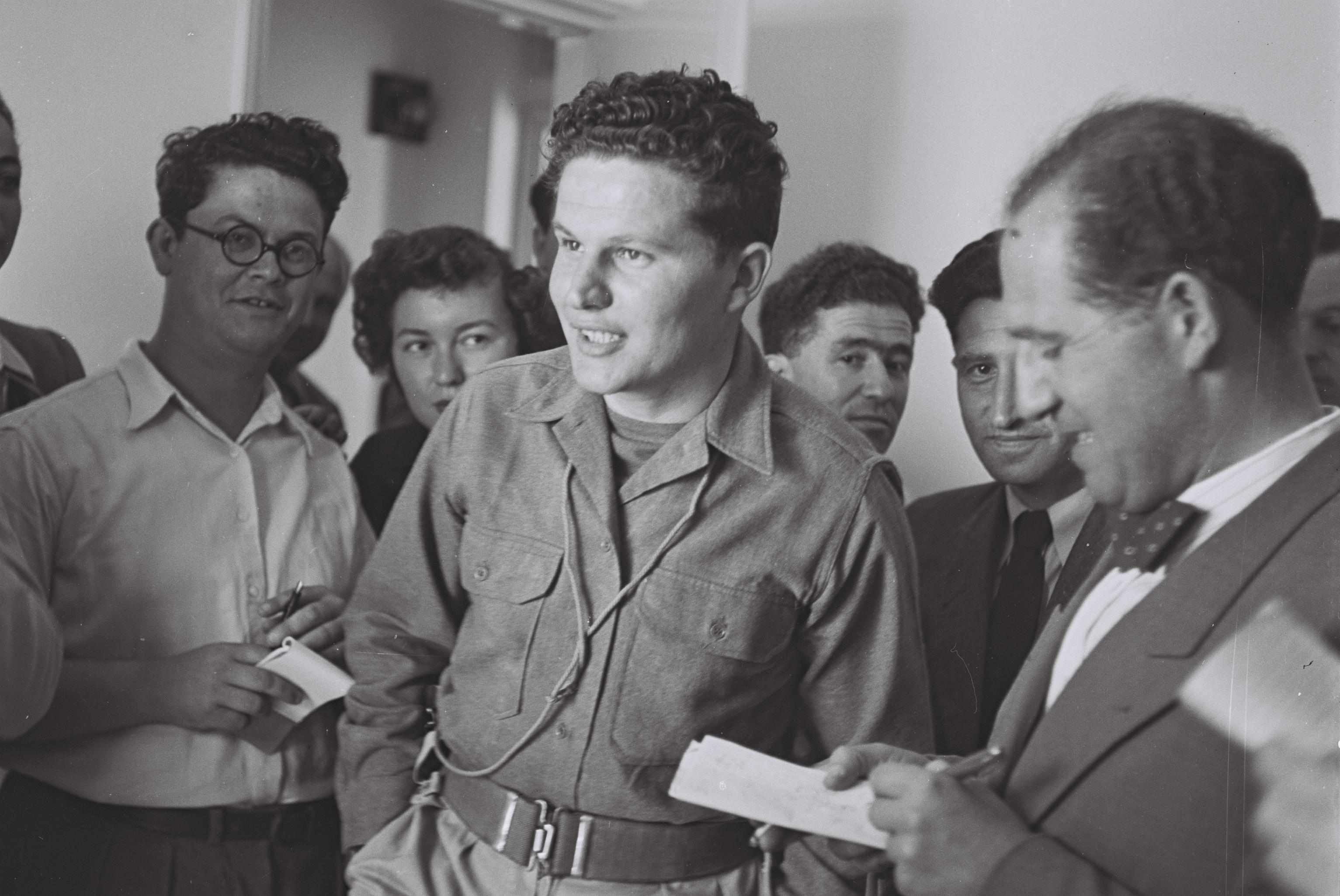 JOURNALISTS MOSHE ZAK OF MAARIV NEWSPAPER, AND YOSEF OLITZKY OF DAVAR NEWSPAPER INTERVIEWING HAGANA COMMANDER AMOS BEN GURION AFTER THE SURRENDER OF JAFFA TO THE HAGANA.Photo: SHERSHEL FRANK, 05/13/1948